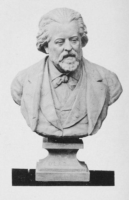 Image of a bust of Dr. LA Bertillon. Cropped and converted to grayscale with GIMP.